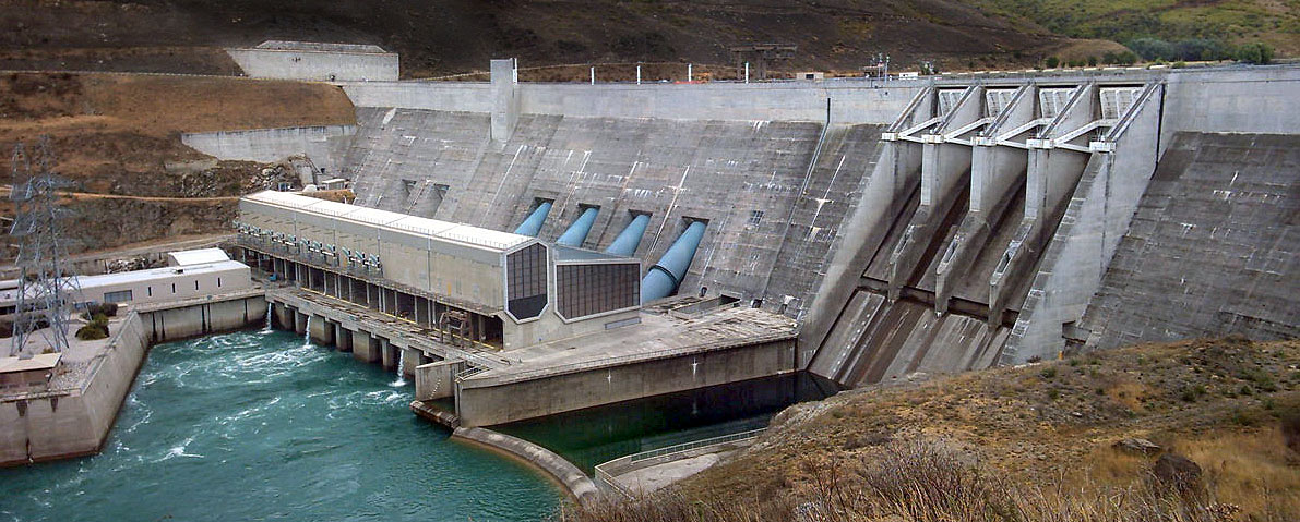 Picture of the Clyde Dam, Central Otago, the third largest hydroelectric dam in New Zealand.